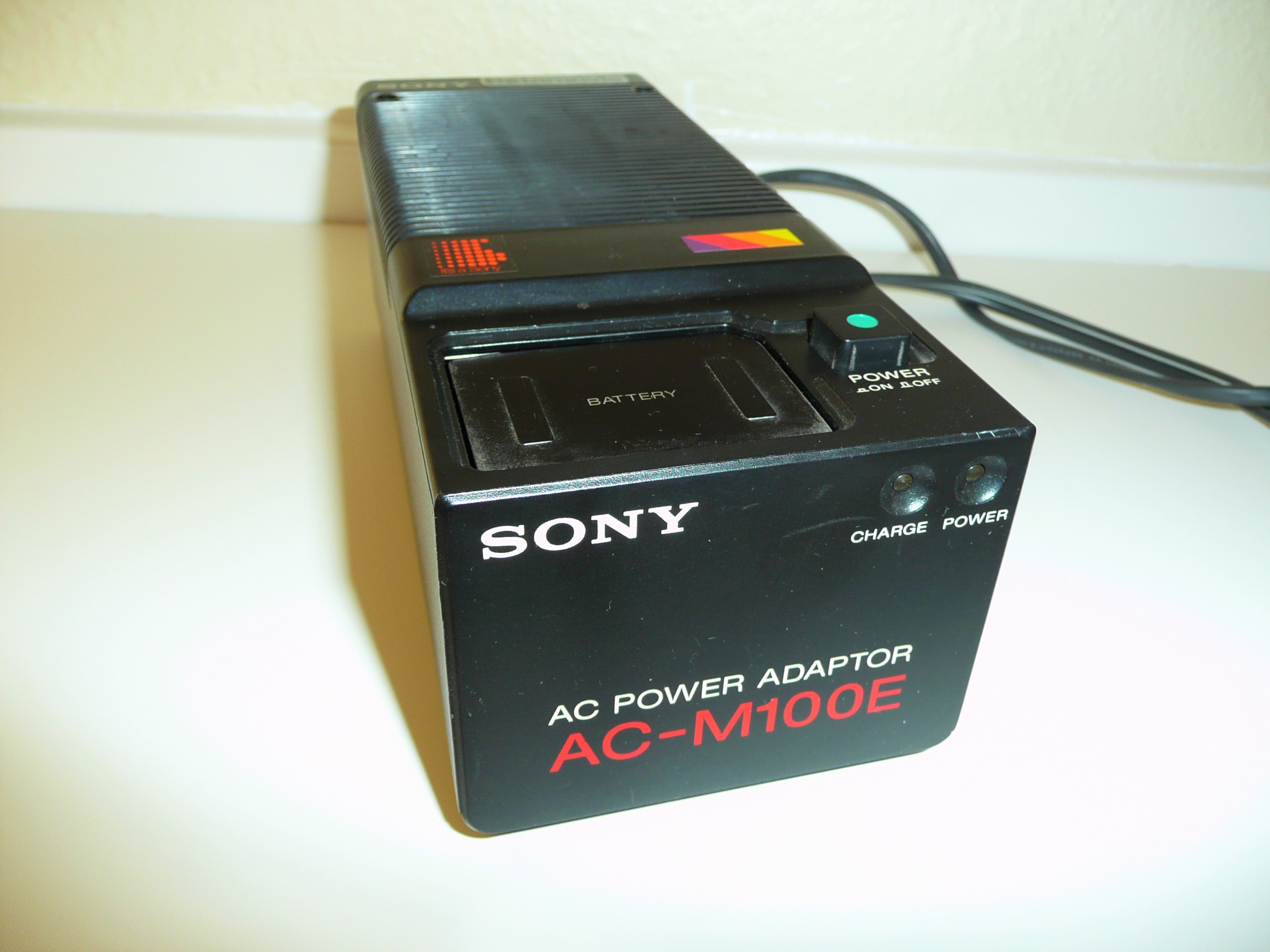 Power supply and battery charger for Betamovie camcorder.